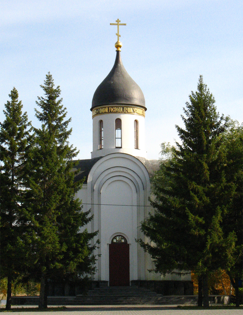 Парк им. 30-летия Победы г.Омск